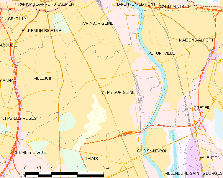 Map of French municipality Vitry-sur-Seine